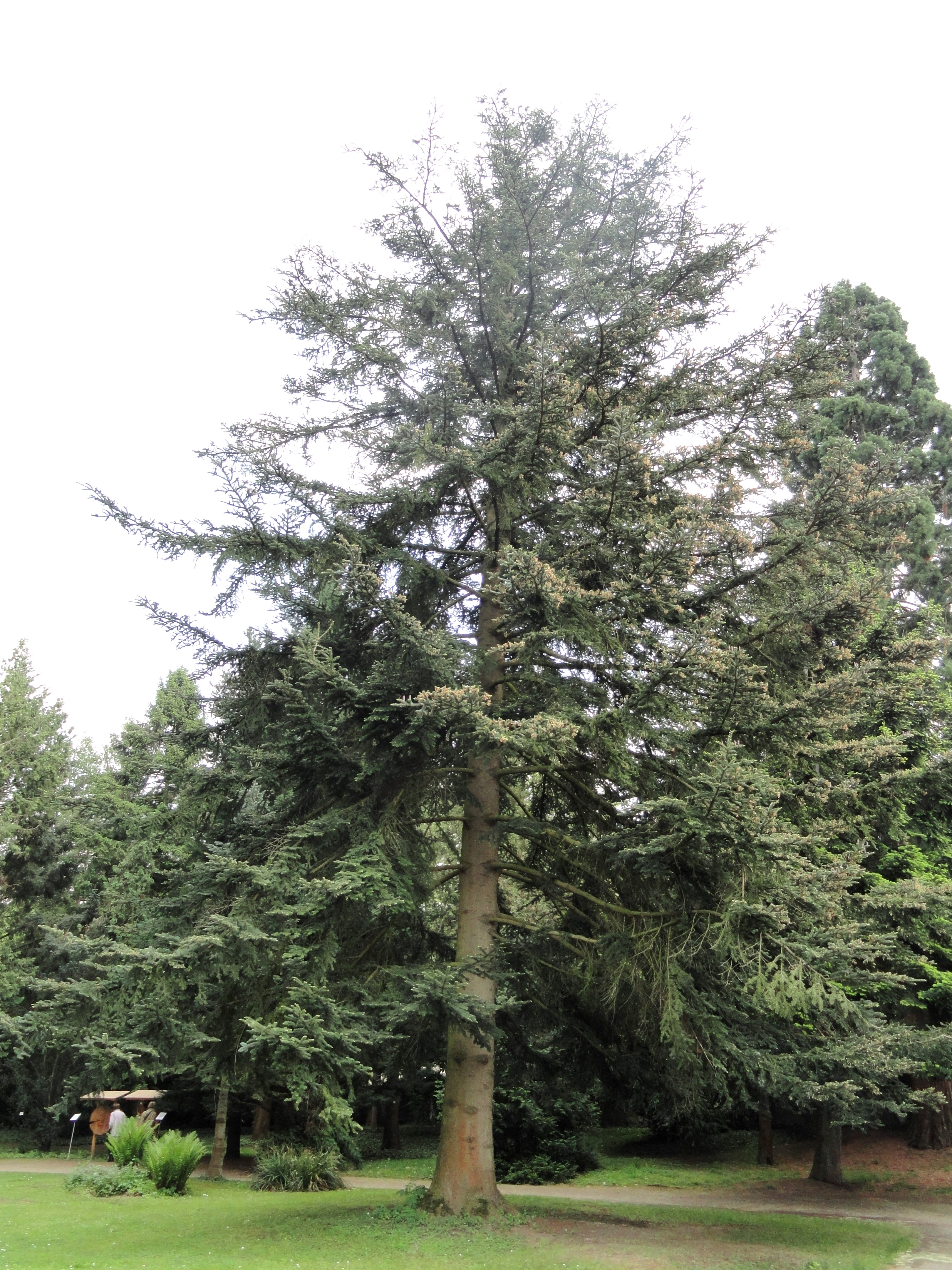 Abies chensiensis specimen in the Botanischer Garten Freiburg, Freiburg im Breisgau, Baden-Württemberg, Germany.